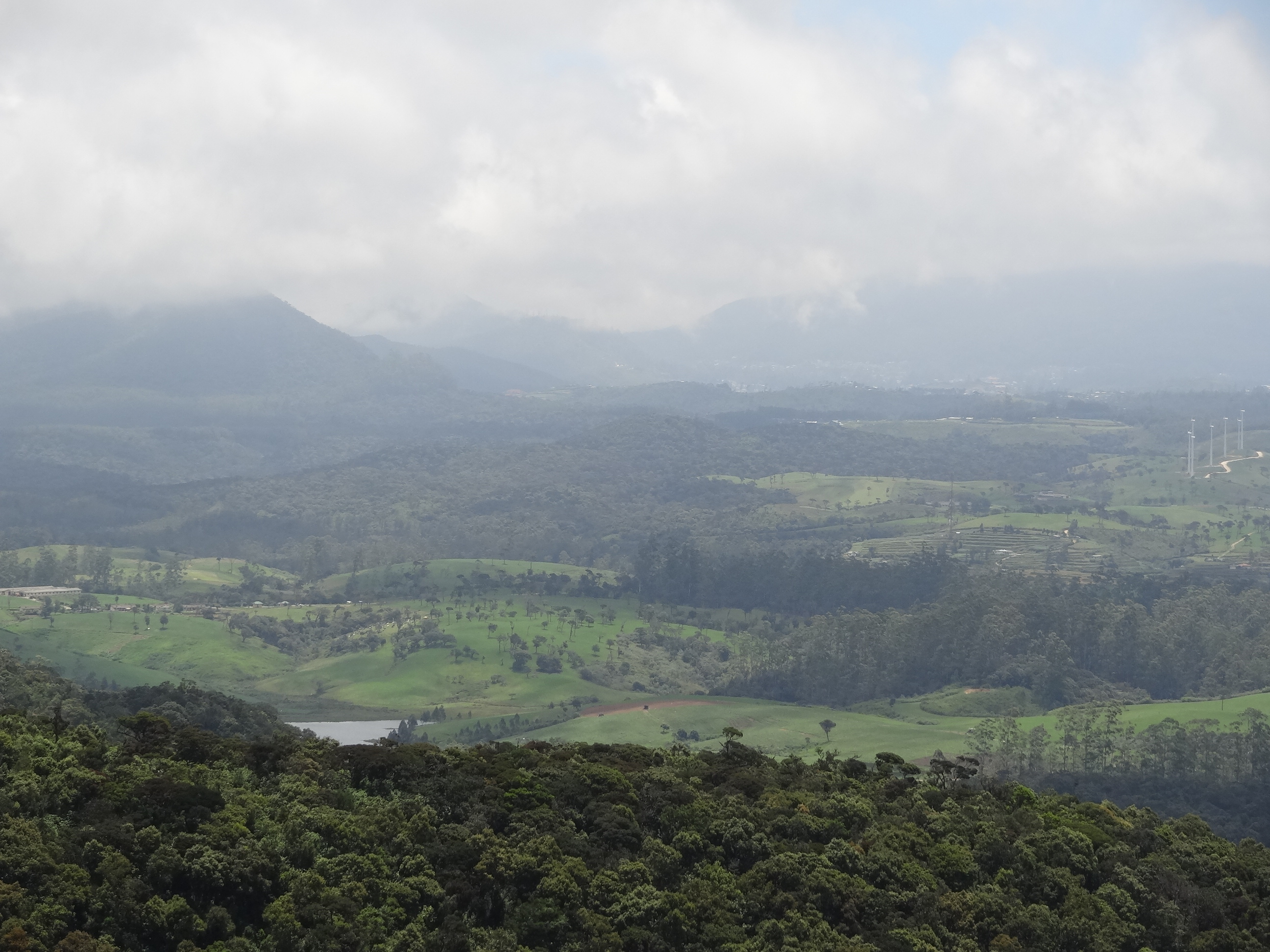 Horton Plains National Park